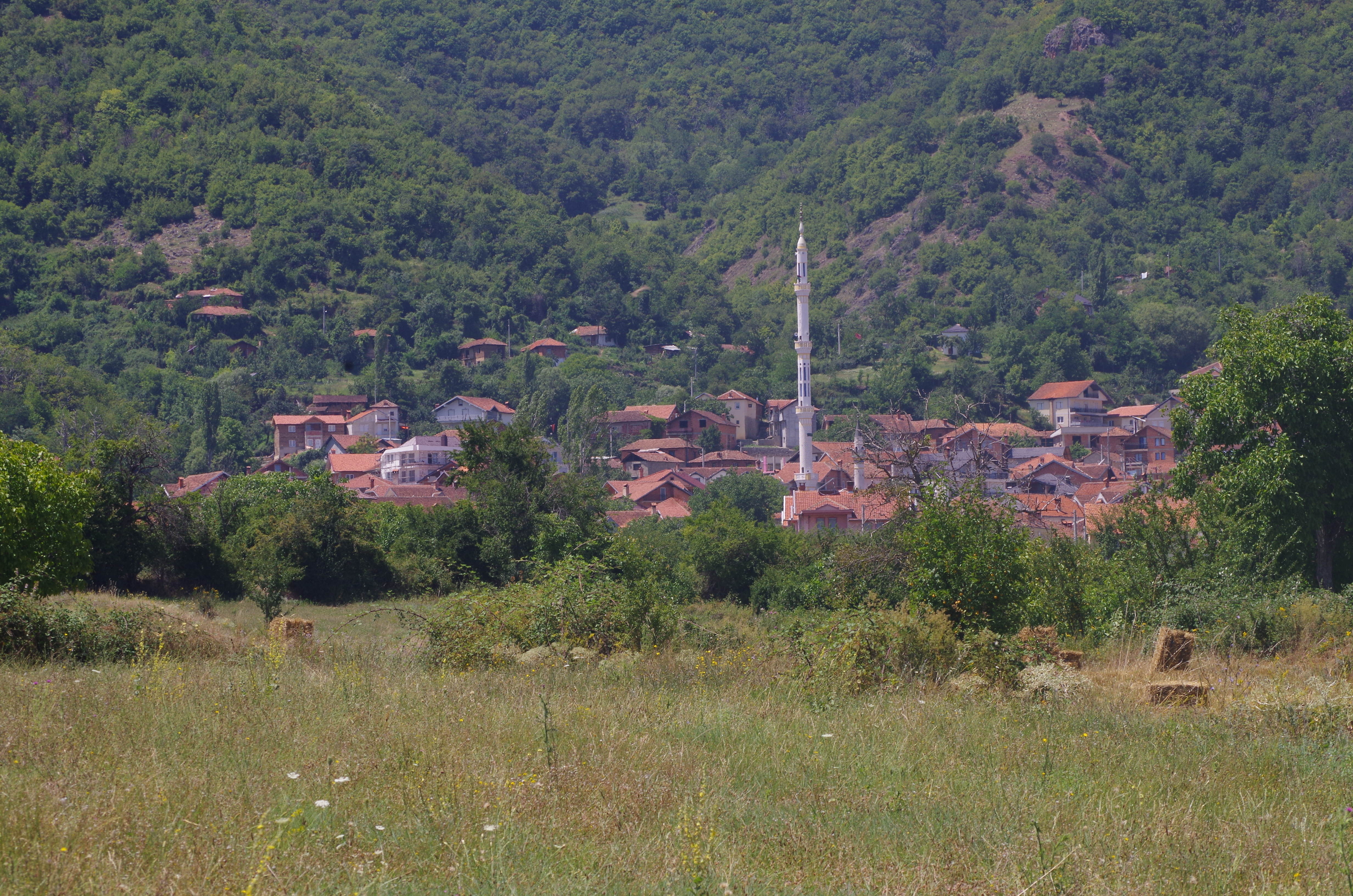 Panoramic view of the village of Radolišta